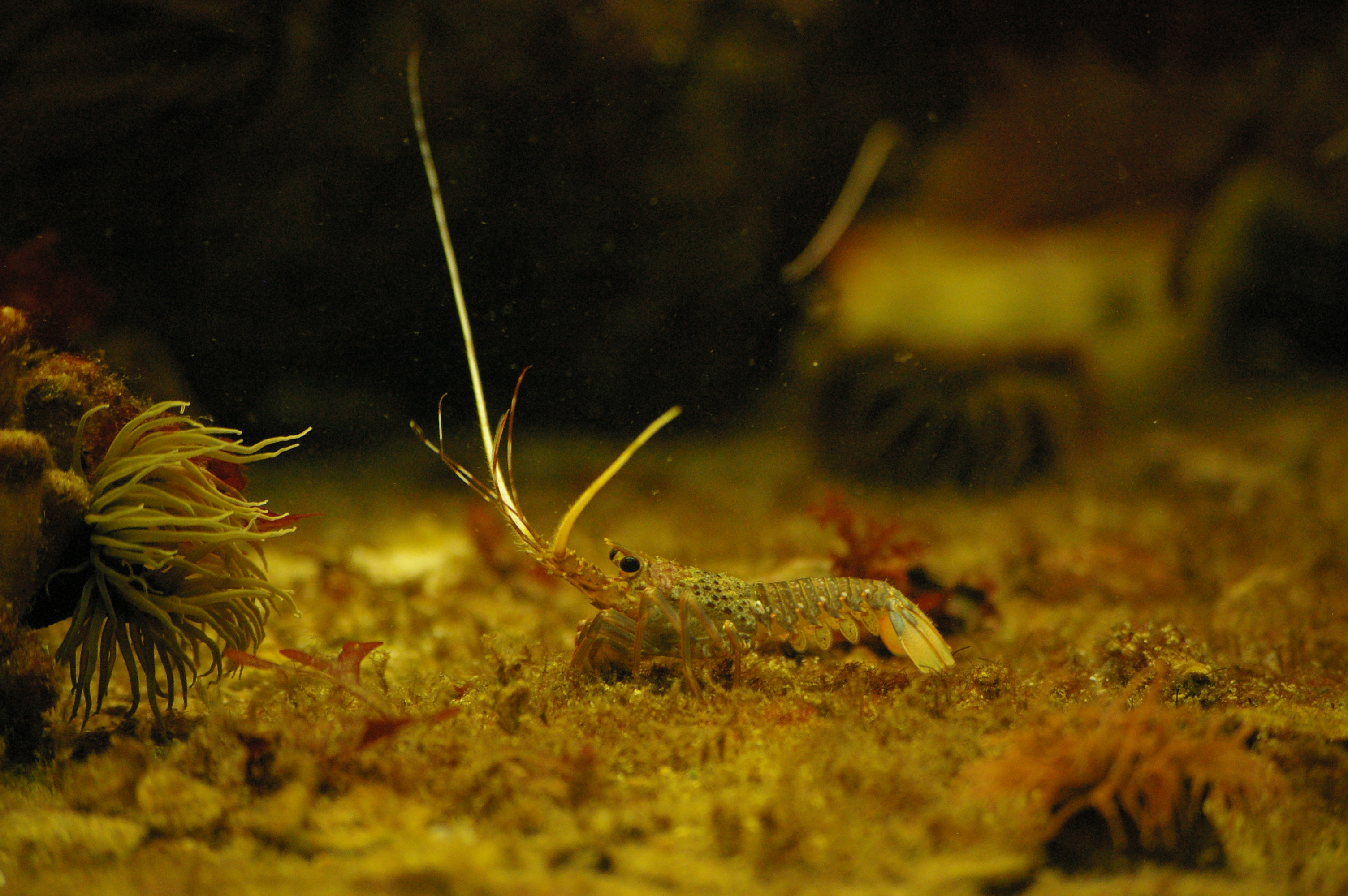 Panulirus cygnus, Juvenile Western Rock Lobster This image was taken at the Naturalist Marine Research Centre(geocoded location), Hillarys Boat Harbour